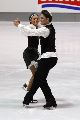 Alexandra ZARETSKI & Roman ZARETSKI (ISR) at the 2009 Nebelhorn Trophy. OD - folk